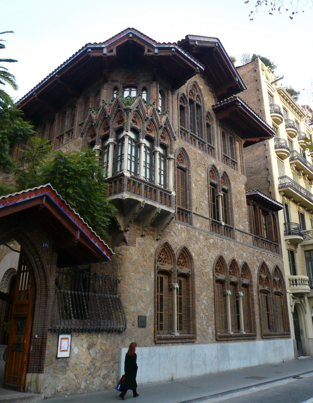 Casa Golferichs (1901), Barcelona, by architect Joan Rubio i Bellver.